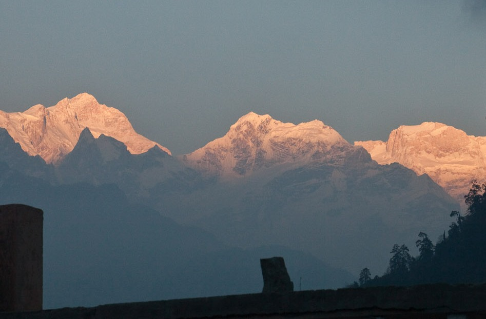 Manaslu (8163 m), Thulagi Chuli (7056 m) and Ngadi Chuli (7871) from Timang, lower Manang valley.